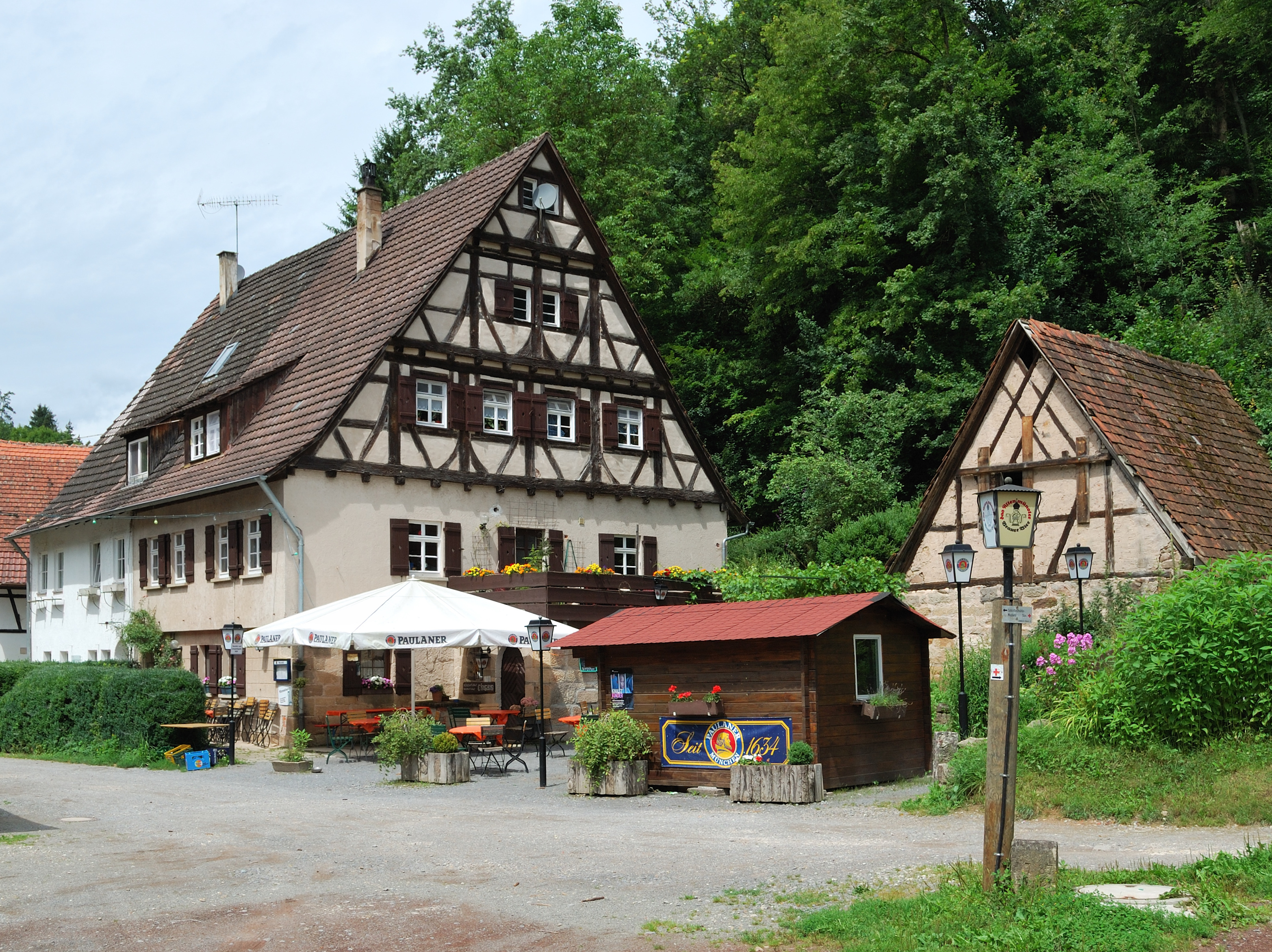 Kochenmühle (Koch-mill, former watermill named after the former owner Koch) in Siebenmühlental (Seven-mills-valley), Baden-Württemberg, Germany.